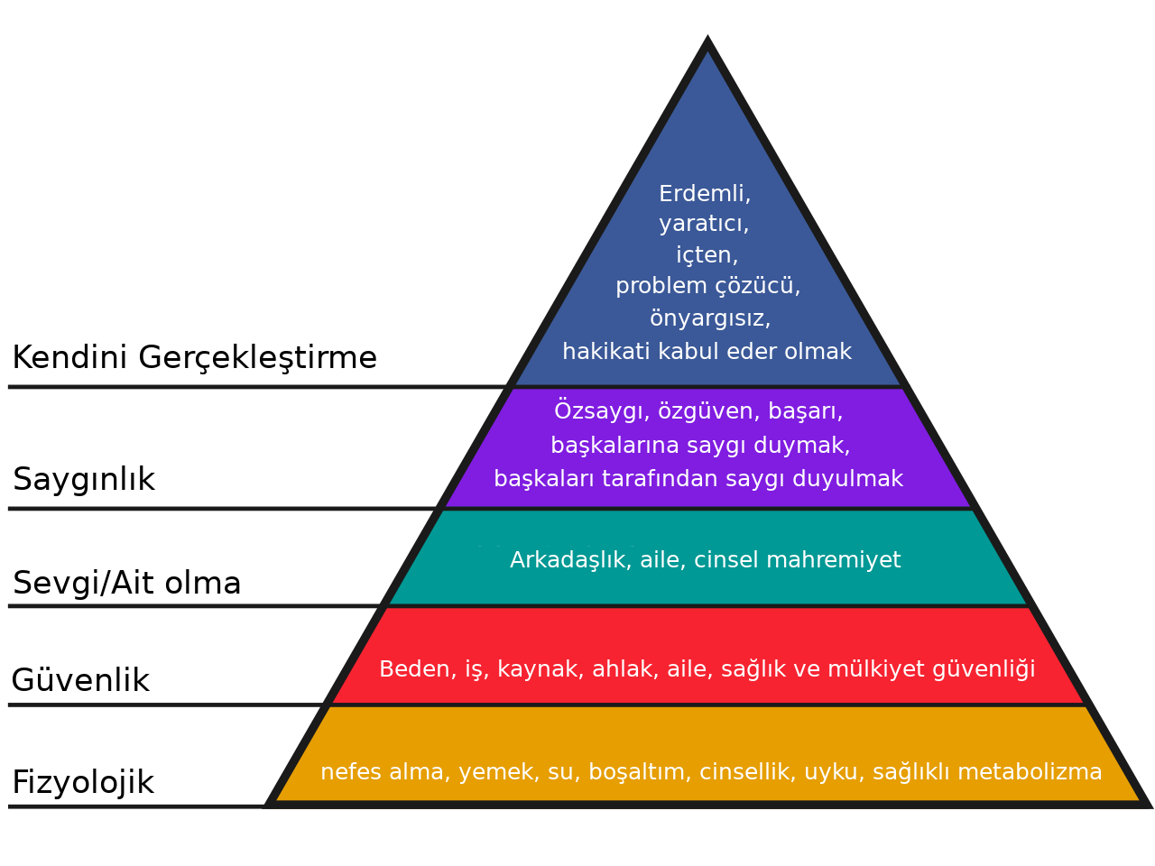 Maslow's hierarchy of needs (Turkish version)